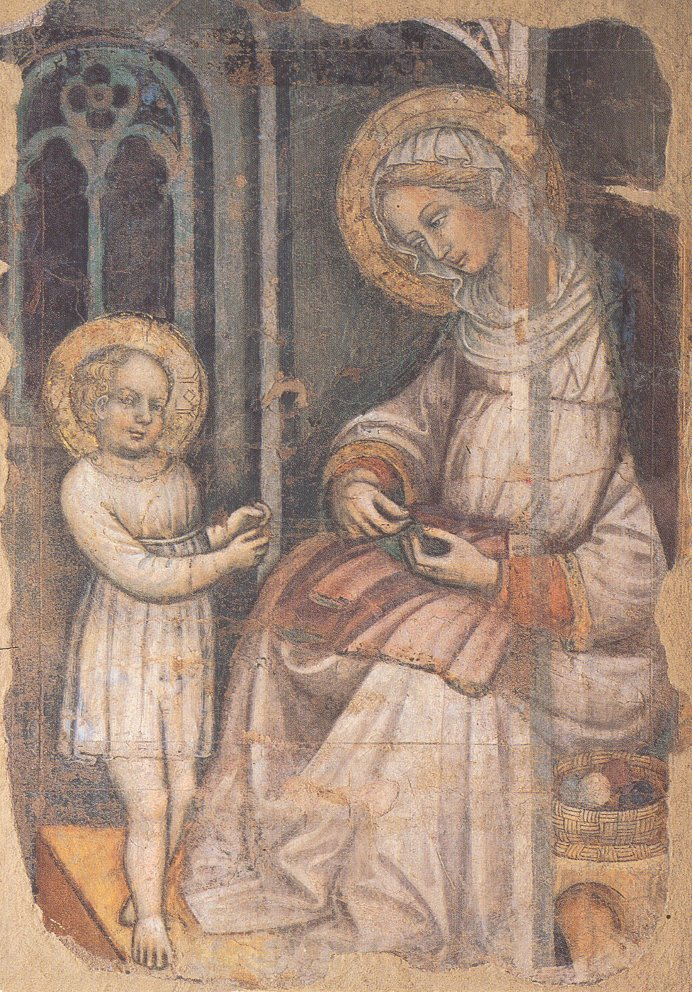 'Saint Anne and the young Virgin sewing', fresco by the Master of the Bambino Vispo Museo dell'Opera di Santa Croce Parent institutionBasilica of Santa CroceLocationFlorence, ItalyAuthority control : Q18650957 VIAF: 264934573 SUDOC: 032582994 institution QS:P195,Q18650957